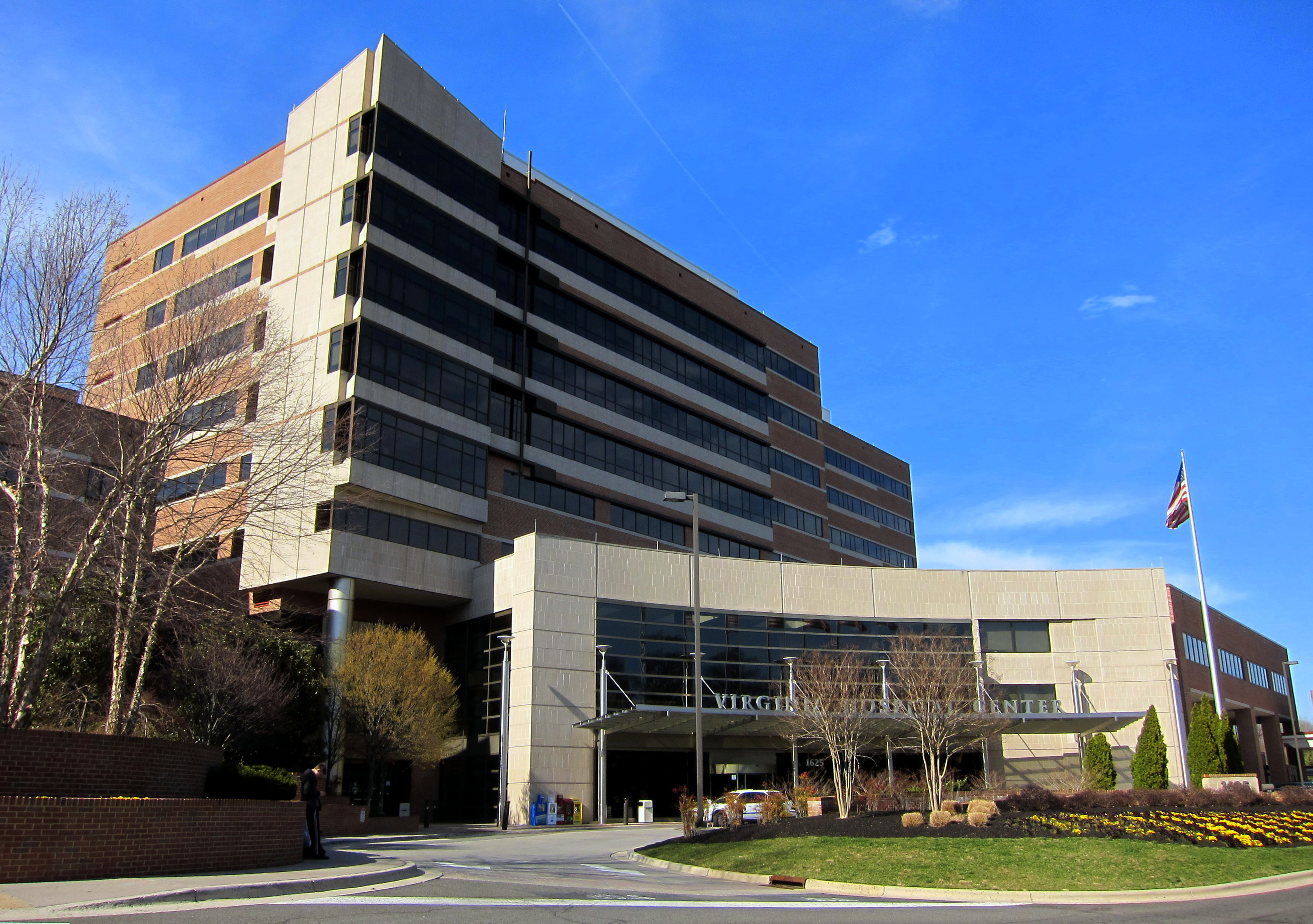 Virginia Hospital Center located at 1701 N George Mason Drive in the Ballston neighborhood of Arlington County, Virginia.